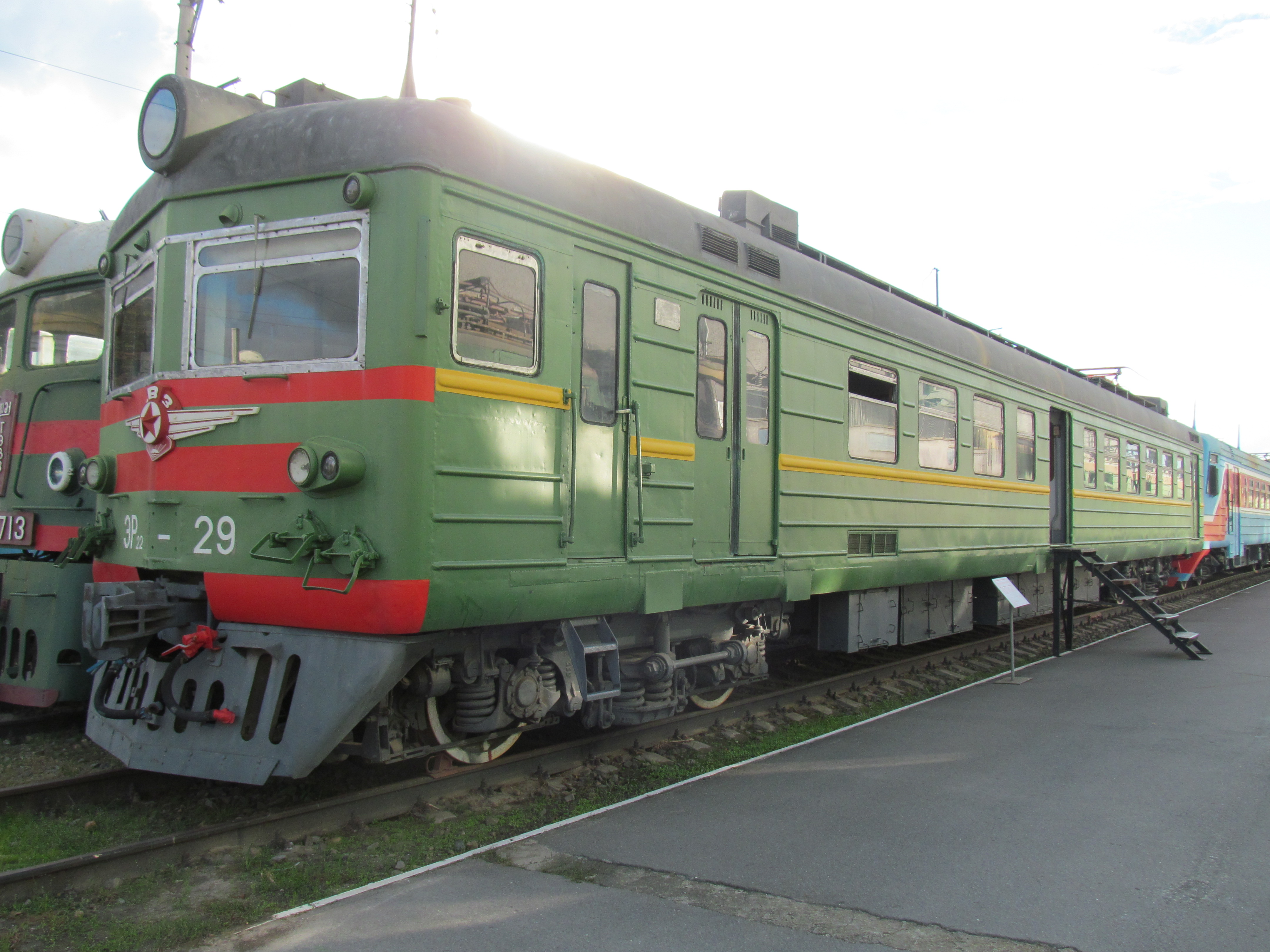 ER22-29 EMU car (ER22-2908) in Rostov Museum of railway equipment